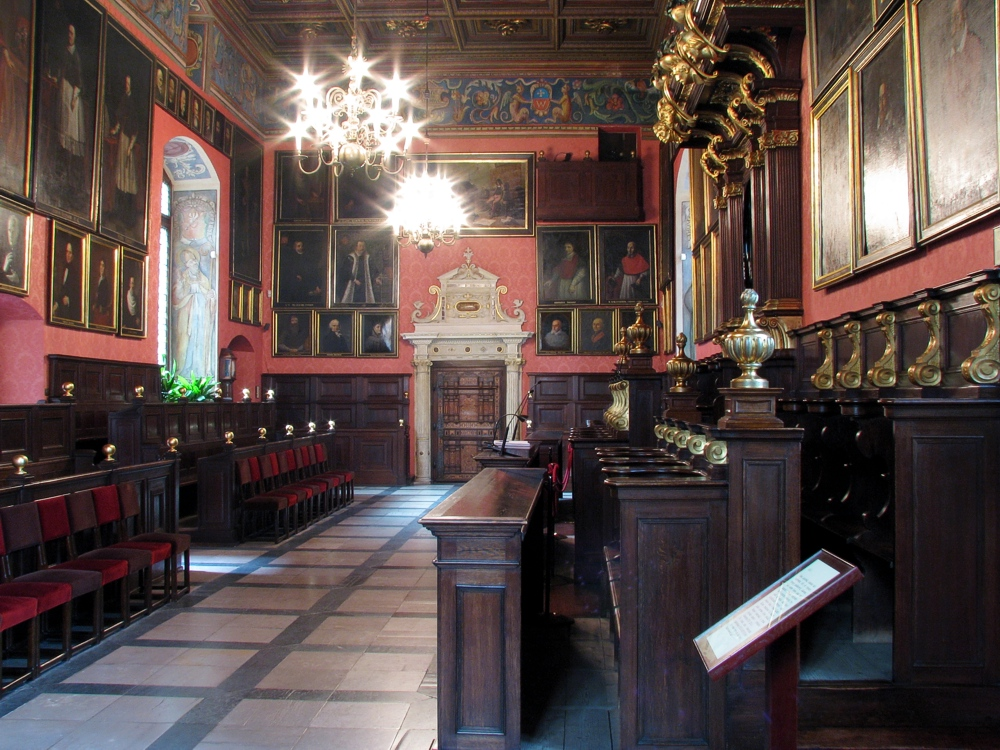 Aula Jagiellońska in Collegium Maius of the Jagiellonian University in Kraków.